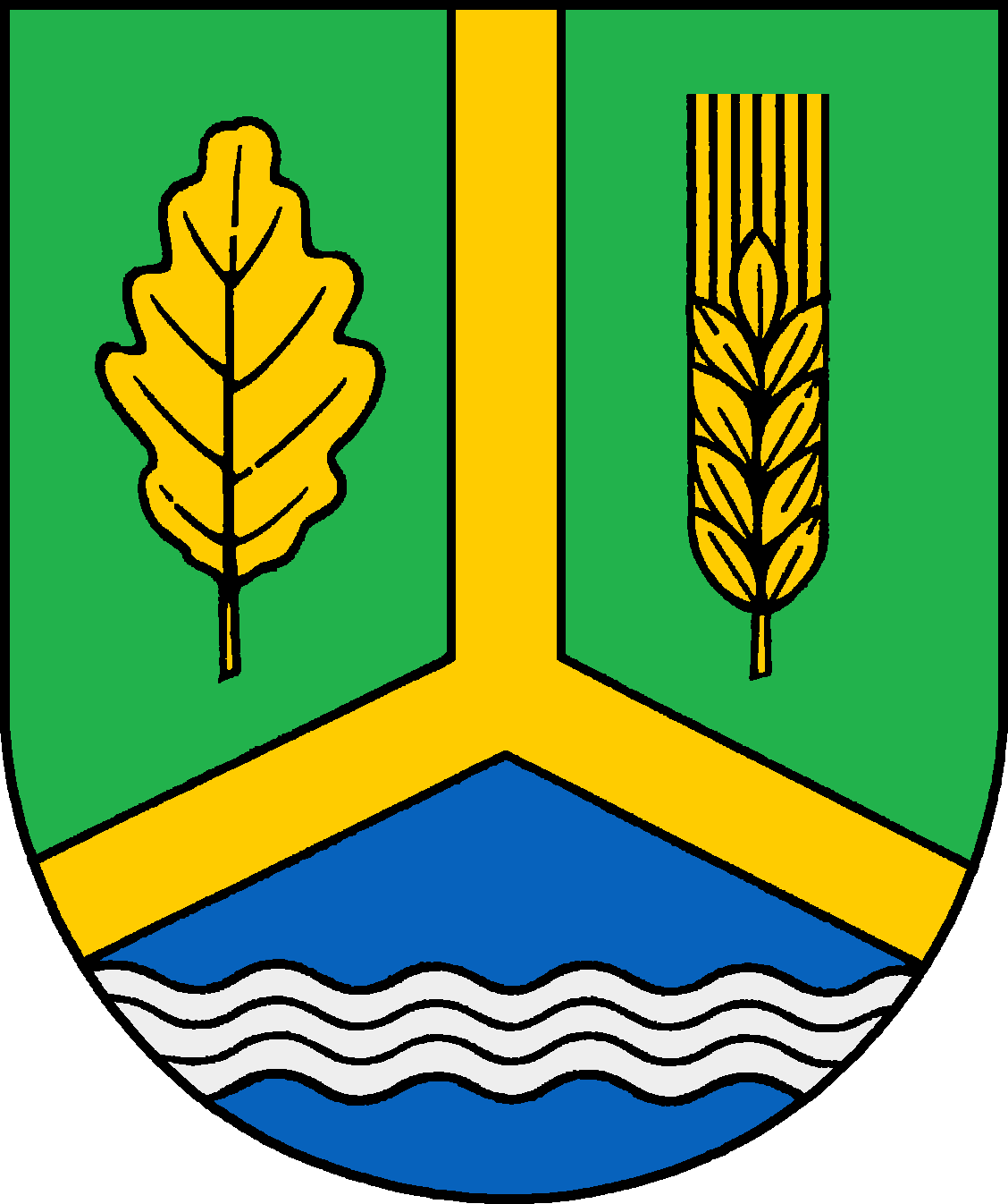 Coat of arms of the municipality Meddewade in Schleswig-Holstein, Germany.